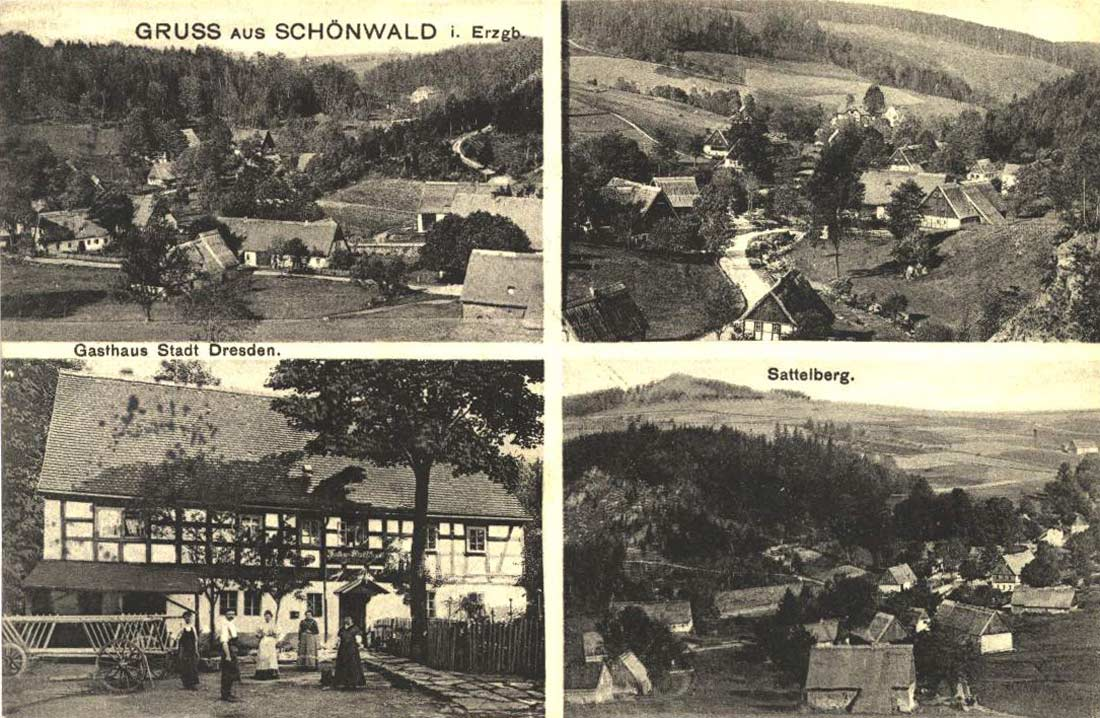 Schönwald at Ore Mountains (today Krásný Les) and its surroundings at the beginning of 1900s